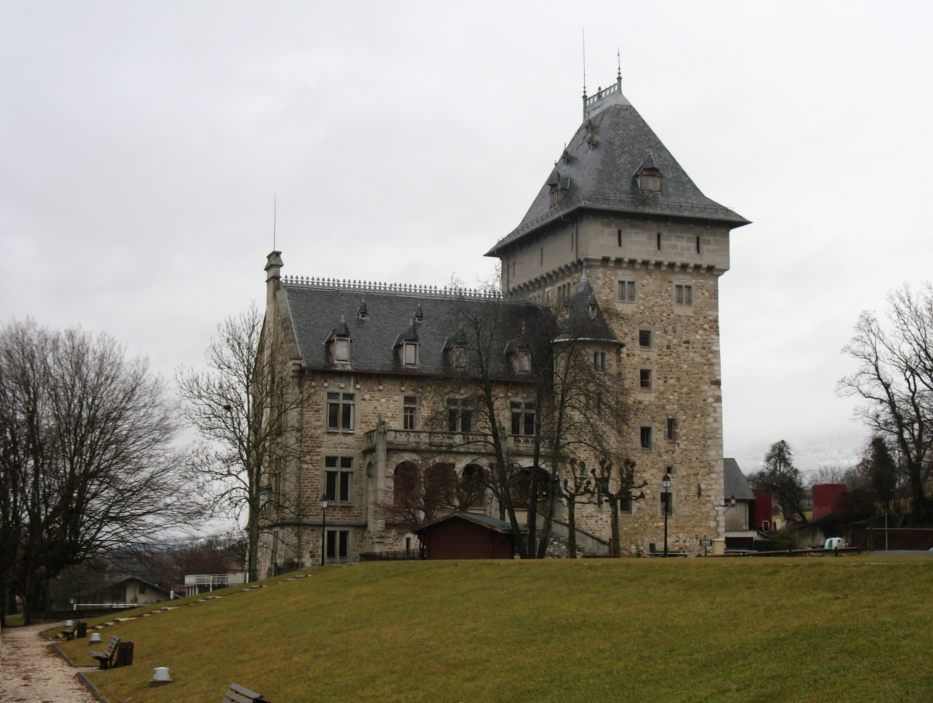 Chateau de Villy, a castle in Contamine-sur-Arve, France.